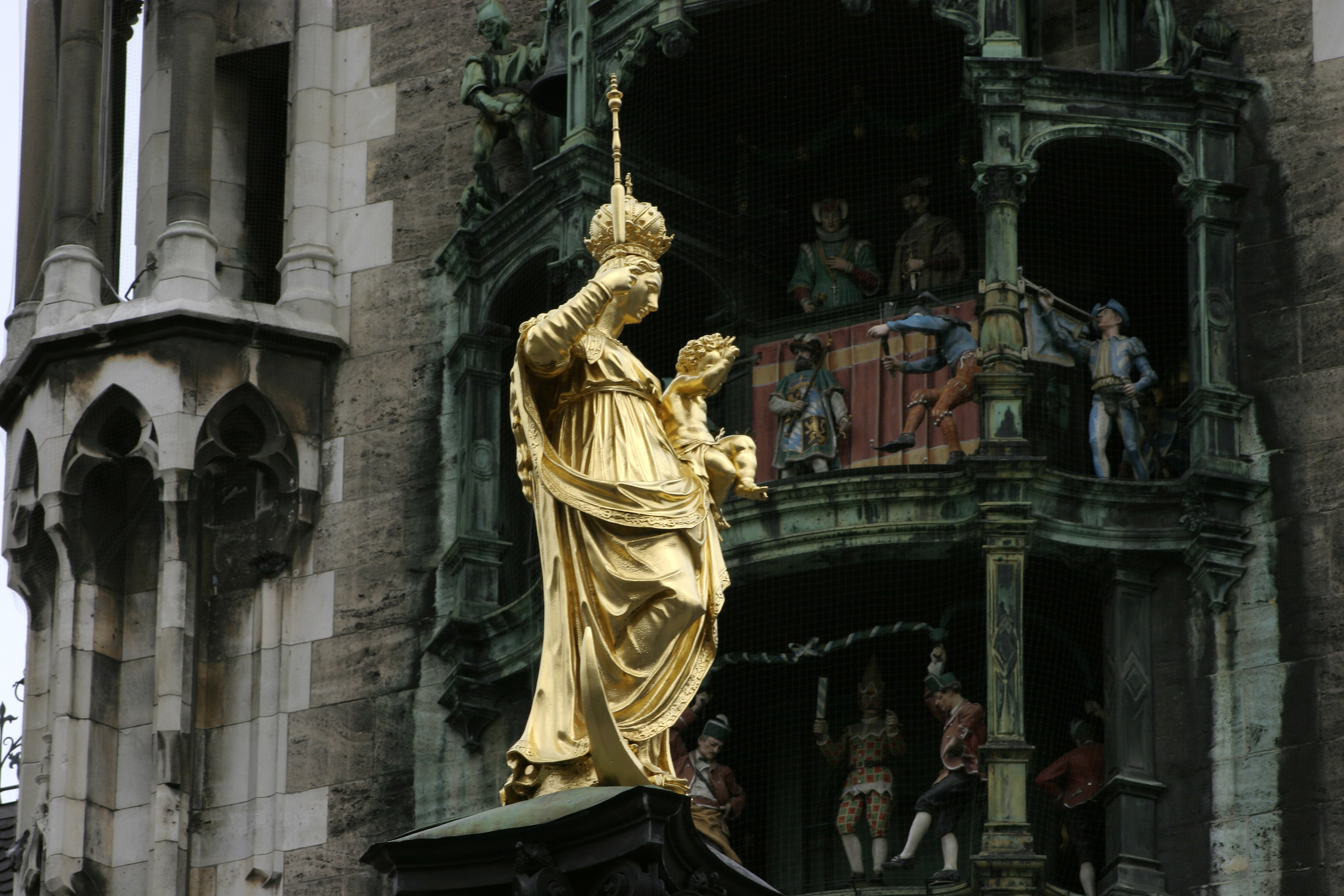 Munich – Maria column in the Marienplatz